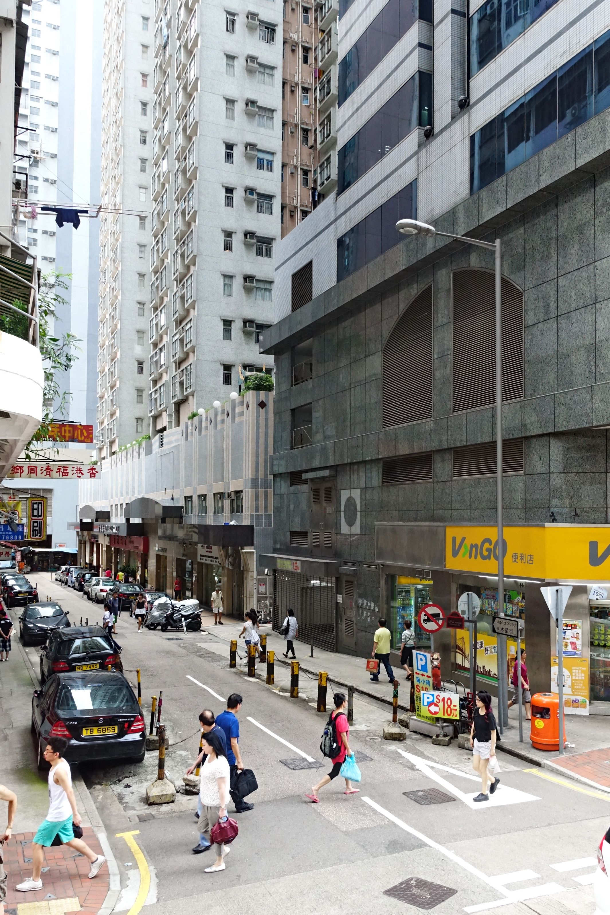 Jupiter Street, Causeway Bay, Hong Kong.